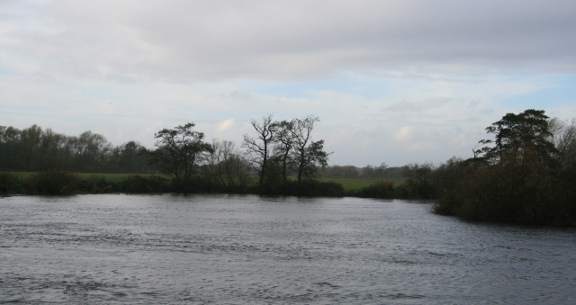 Derwent Mouth. The longest river in Derbyshire reaches its end at its confluence with the River Trent. It has flowed through the entire length of the county from the border with South Yorkshire to here, the border with Leicestershire (from which the photograph was taken).